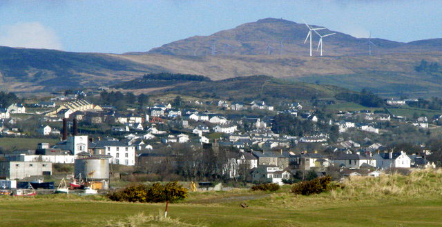 Buncrana, County Donegal, Republic of Ireland. Seen from the south.